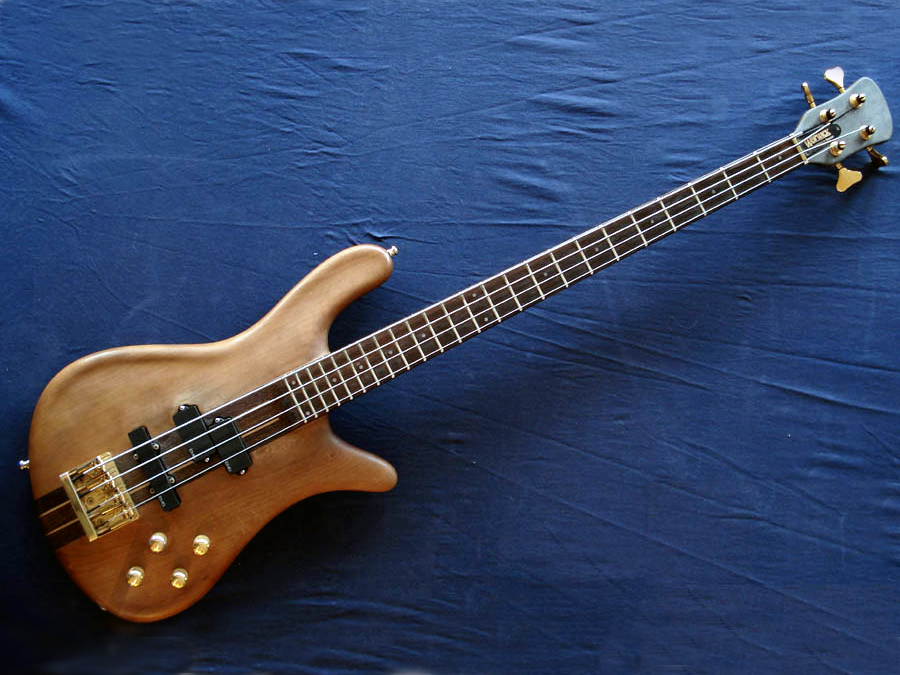 Picture of a Warwick Streamer from 1983